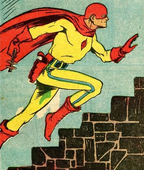 Comic page detail from Wonderworld Comics #3.